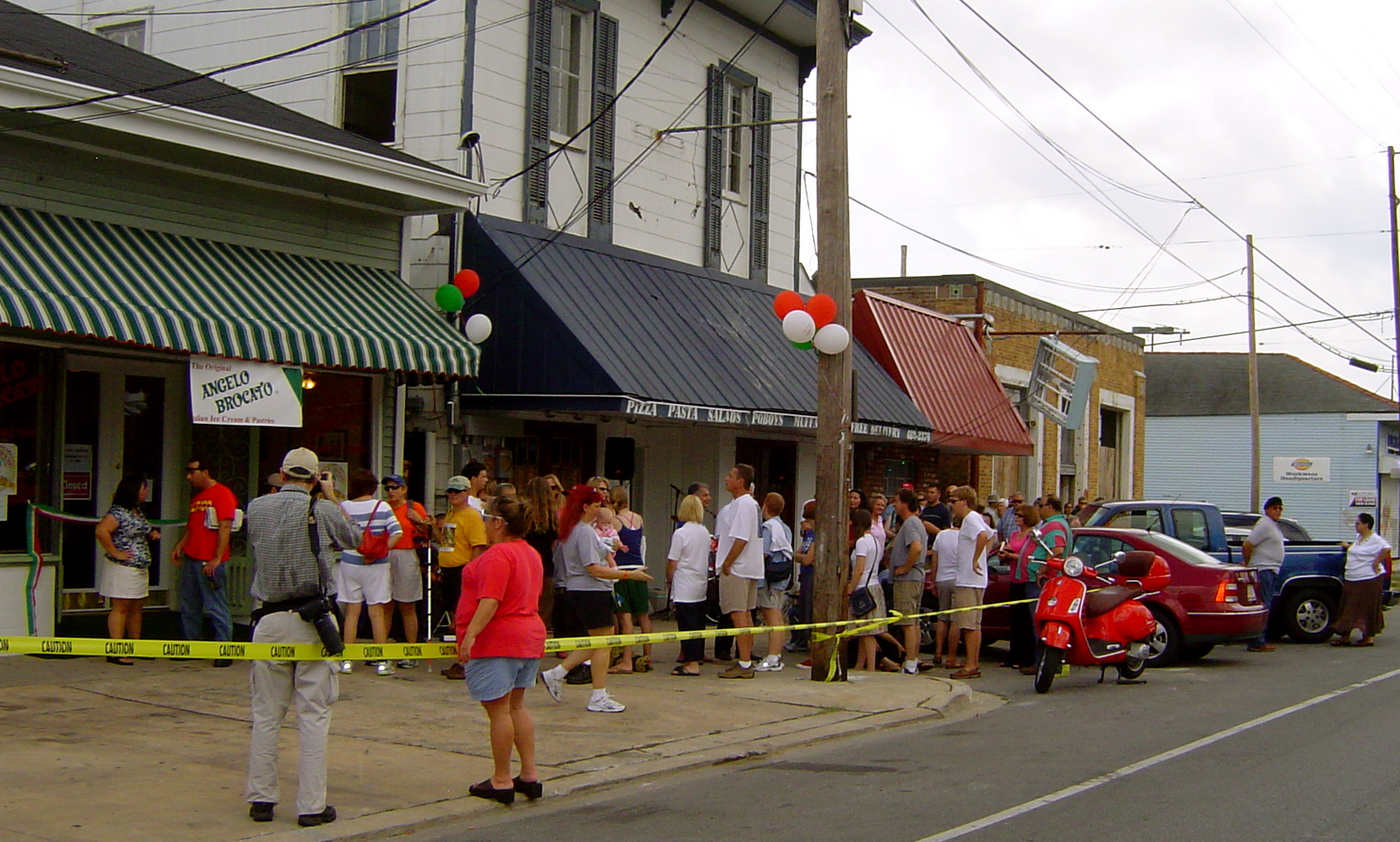 New Orleans. Post-Katrina reopening of Mid-City landmark Angelo Brocato's ice cream. People lined up on Carrollton Avenue, otherwise still derelict block.